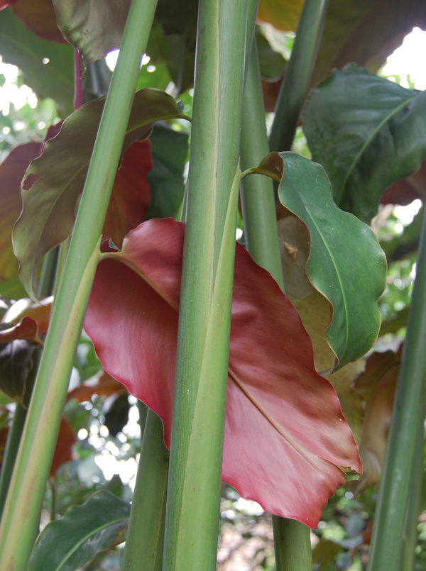 Torch ginger Etlingera hemisphaerica, purplish leaves underneath. Darmaga, Bogor, West Java.